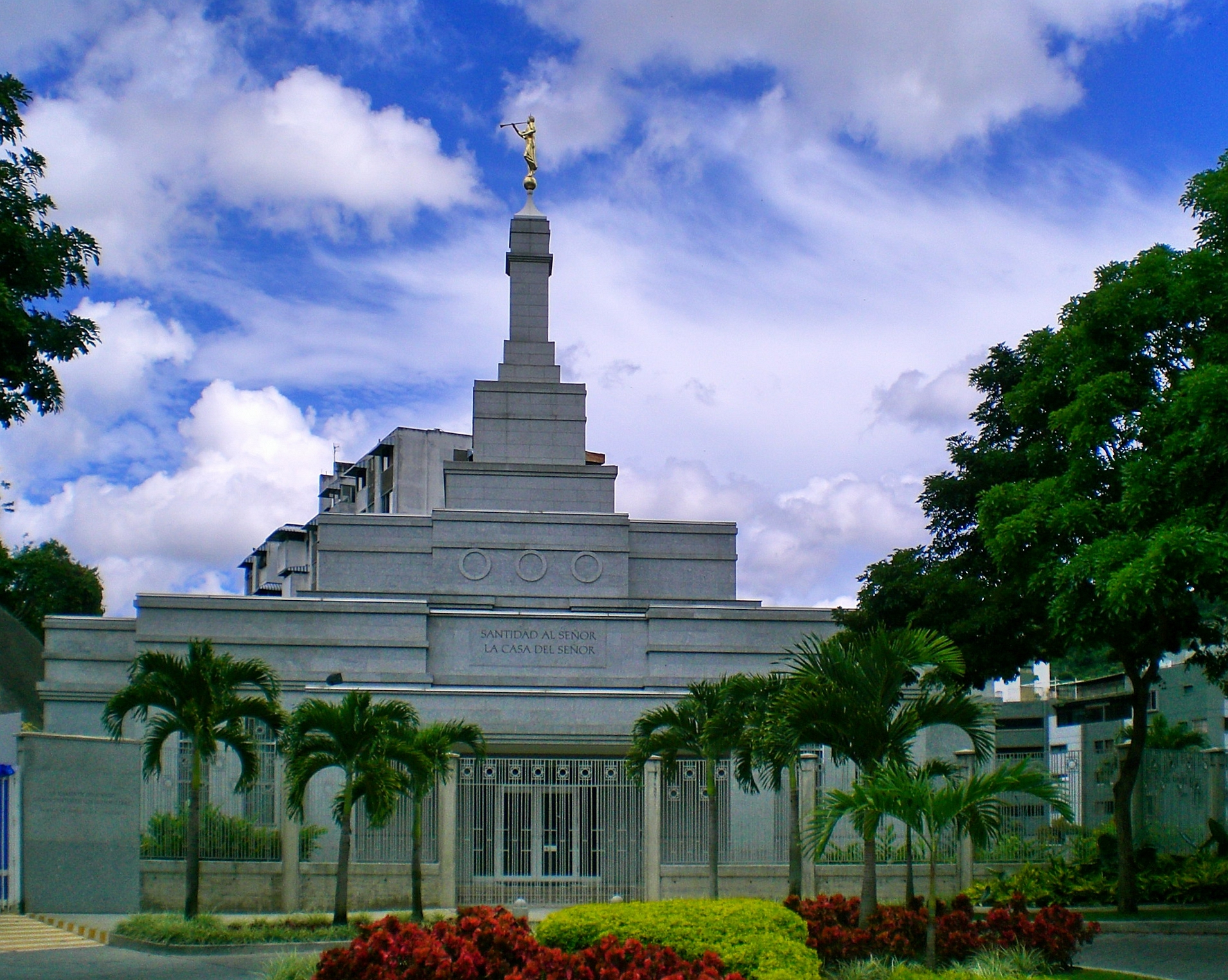 The Caracas Venezuela Temple of The Church of Jesus Christ of Latter-day Saints located in El Cafetal, Caracas, Venezuela